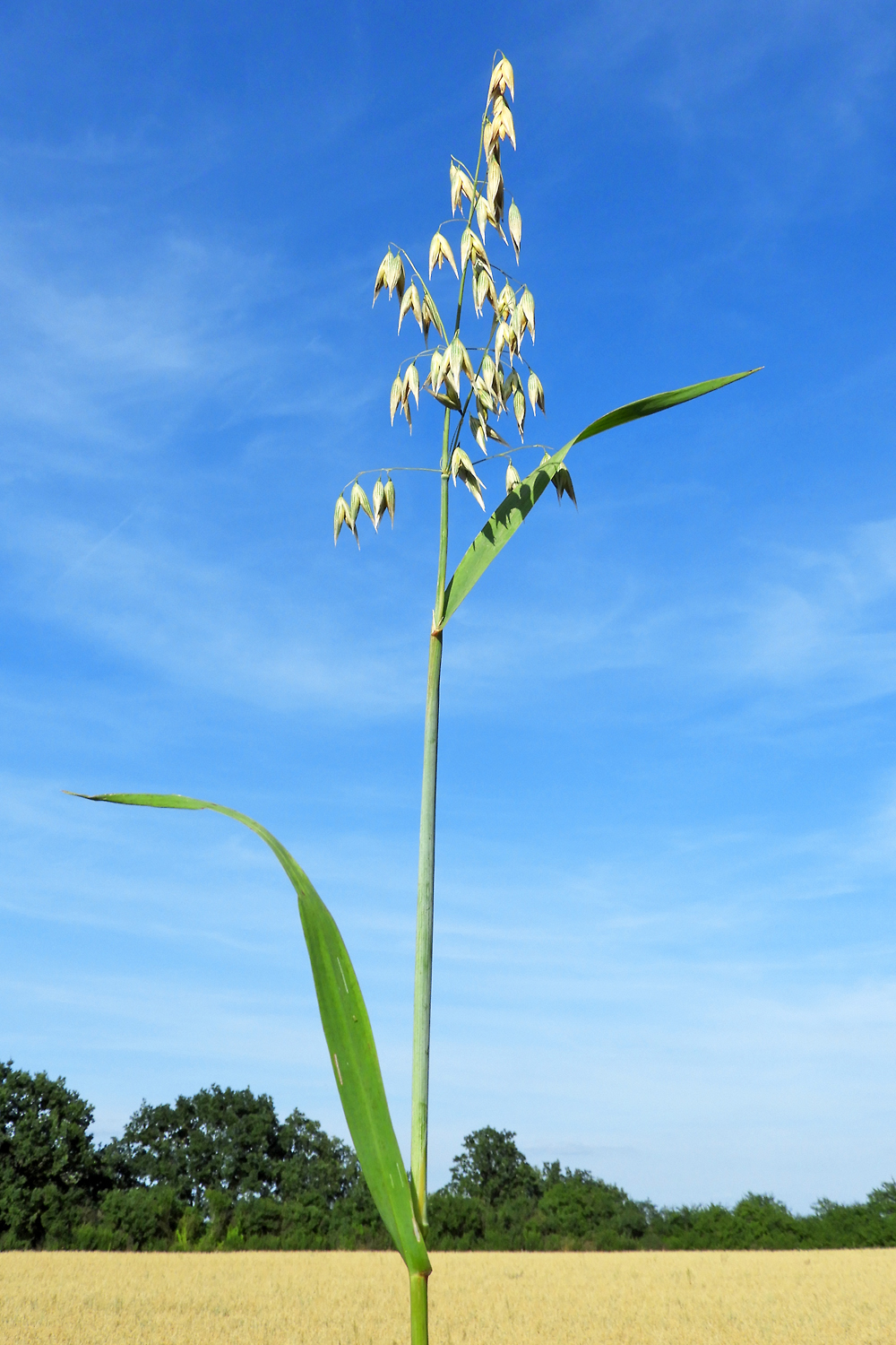 Habitus (upper part) of Common Oat, Avena sativa, near harvest time. Location: North-eastern Lower Saxony, Germany.